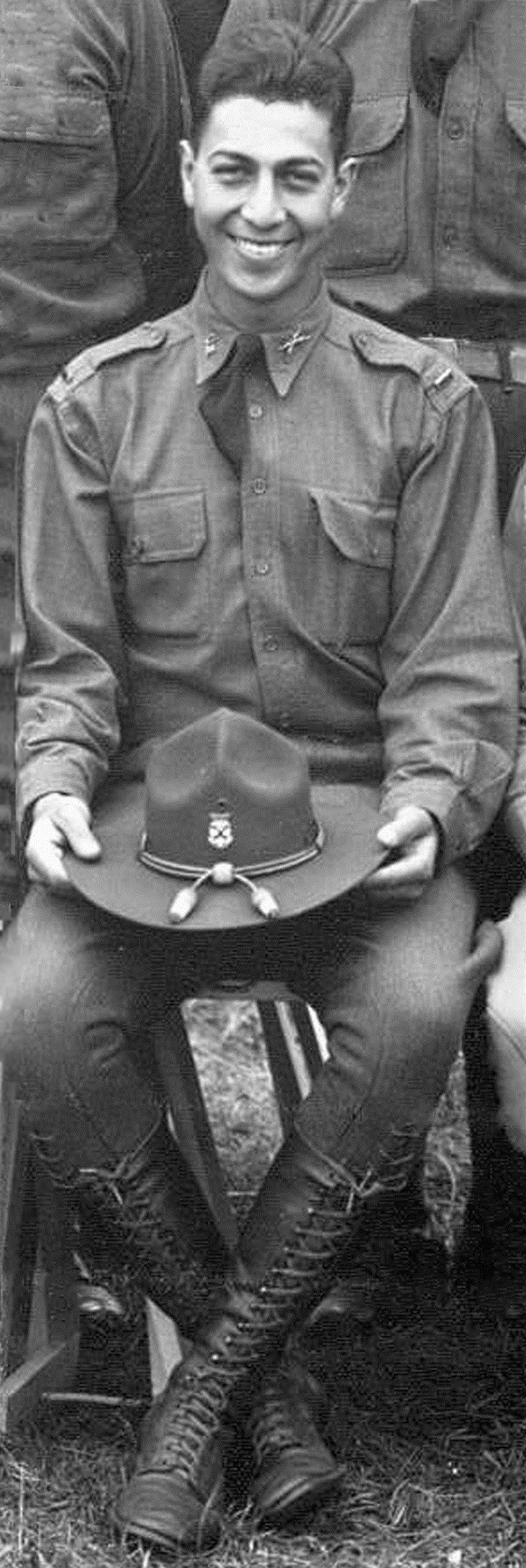 George Juskalian during military campaign